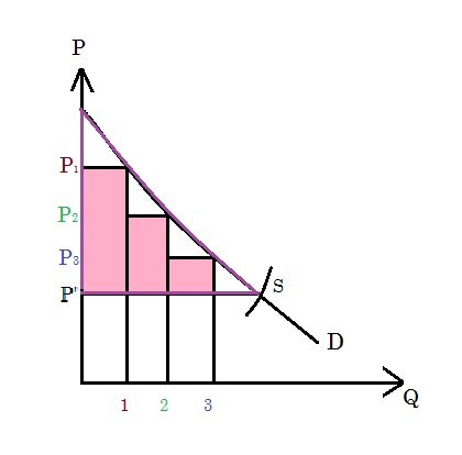 graph showing Consumer Surplus